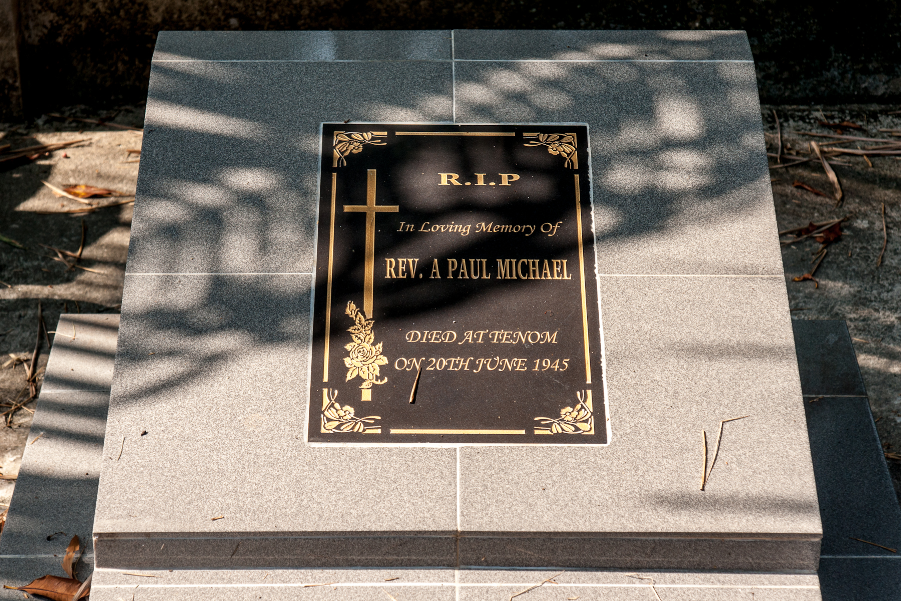 Penampang, Sabah: St. Michael Church Donggongon, Tomb of Rev. A. Paul Michael